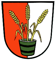 Coat of arms of the Town Dinkelscherben